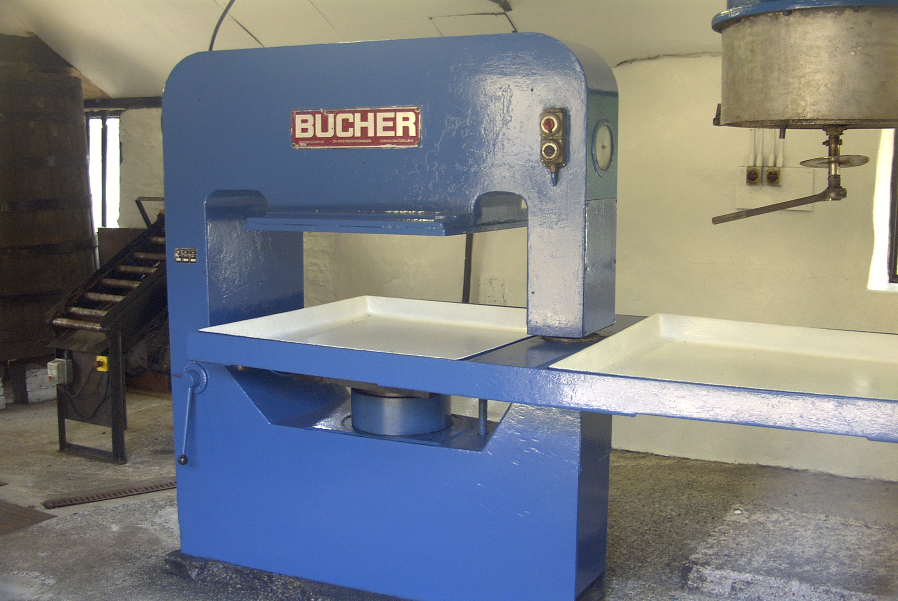 A picture of a Bucher Cider press. The fruit is pressed by the action of the metal tray being lifted from below by a hydraulic ram and the "cheese" being pushed against the metal plate at the top